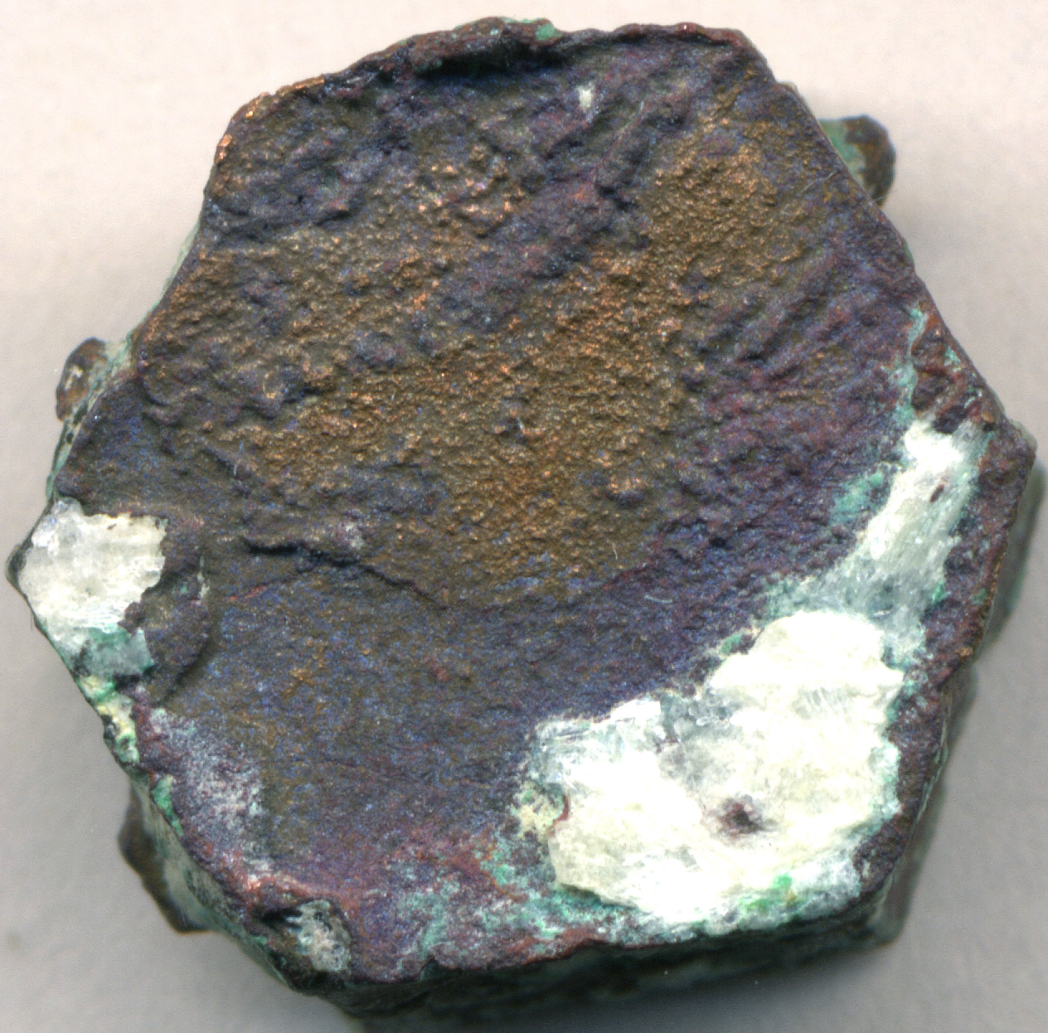 Native copper pseudomorph after aragonite (1.7 cm across at its widest) from the Tertiary of Bolivia. Pseudomorphs are minerals that have replaced other minerals, while retaining the crystal shape of the original mineral. This is a hexagonal crystal of native copper (Cu). The original crystal was pseudohexagonal, cyclically twinned aragonite (CaCO3 - calcium carbonate). The very dark red is cuprite, the result of oxidation of the native copper. The greenish areas are malachite (Cu2CO3(OH)2 - copper hydroxy-carbonate). This interesting specimen came from Bolivia's Corocoro Copper Mining District, but more specific provenance info. was not accompanying. It may be from the Umacoya Vein, a cupriferous horizon in coarse-grained siliciclastics of the Vetas Formation (Lower Miocene). Another possibility is that it came from the Ramos Formation (Eocene). Copper mineralization in the Corocoro Mining District is associated with the Corocoro Fault. Locality: in or near the town of Corocoro, Corocoro Mining District, southern La Paz Department, western Bolivia.